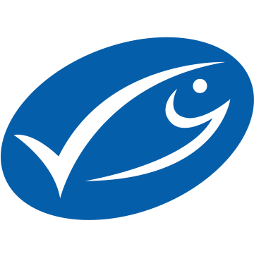 Logo of the Marine Stewardship Council (MSC)